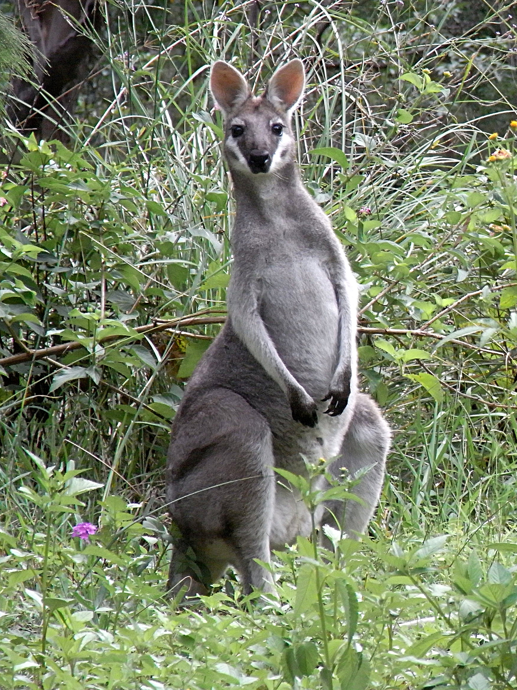 Wild Whiptail Wallaby/Pretty-Faced Wallaby (Macropus parryi) at the road from Canungra to Lamington National Park, Queensland, Australia.